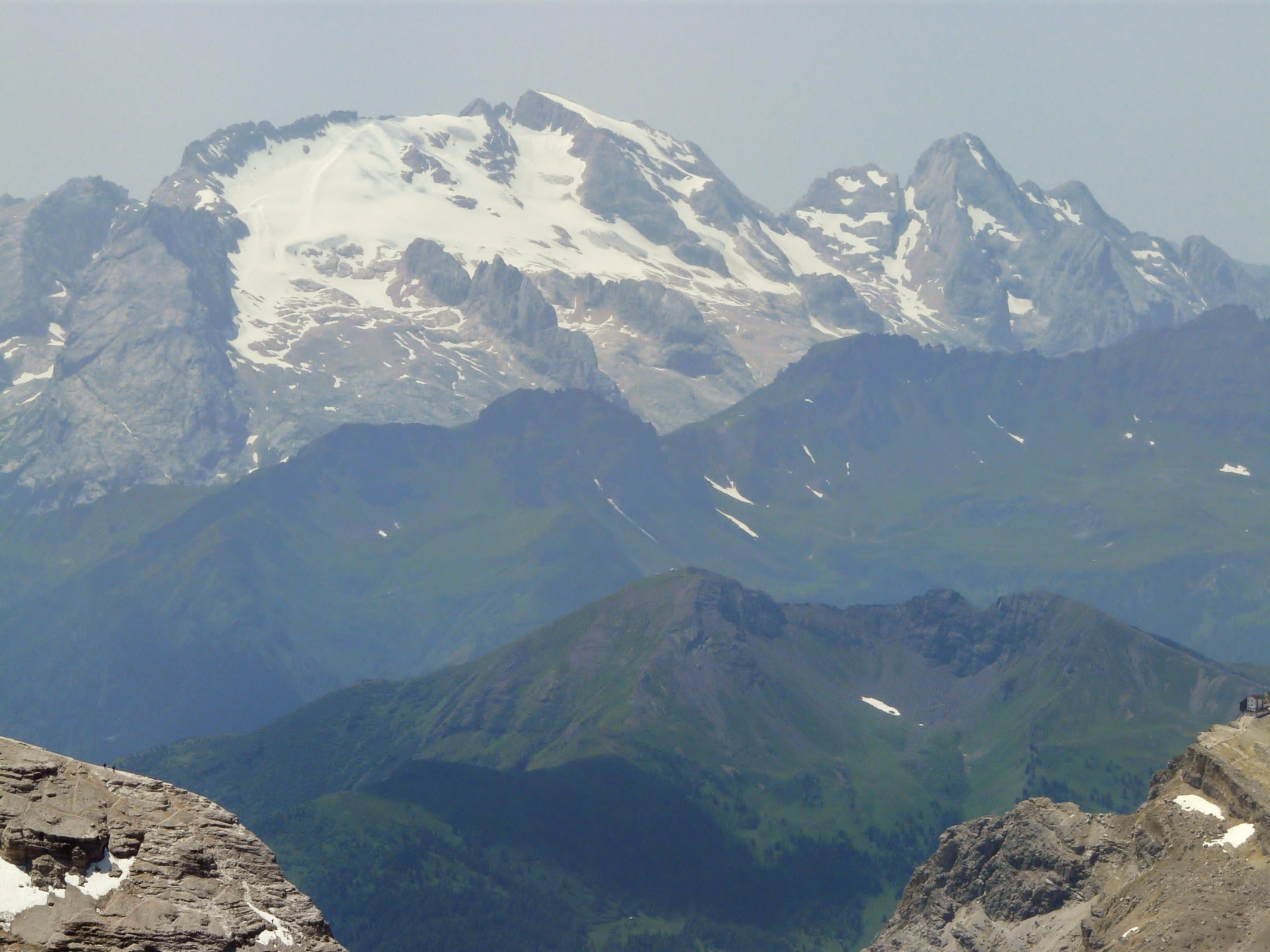 A view to Marmolada Massif from Tofana di Mezzo in 2009 July.